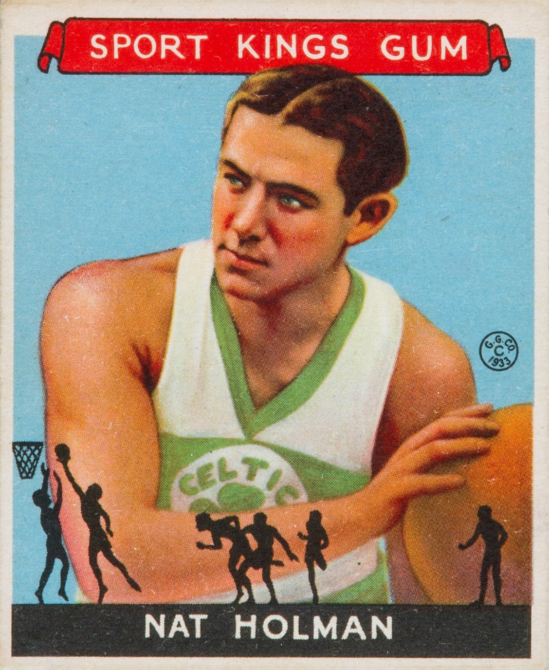 1933 Goudey Sport Kings basketball card of Nat Holman #3. PD-not-renewed.